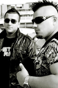 Shy brothers